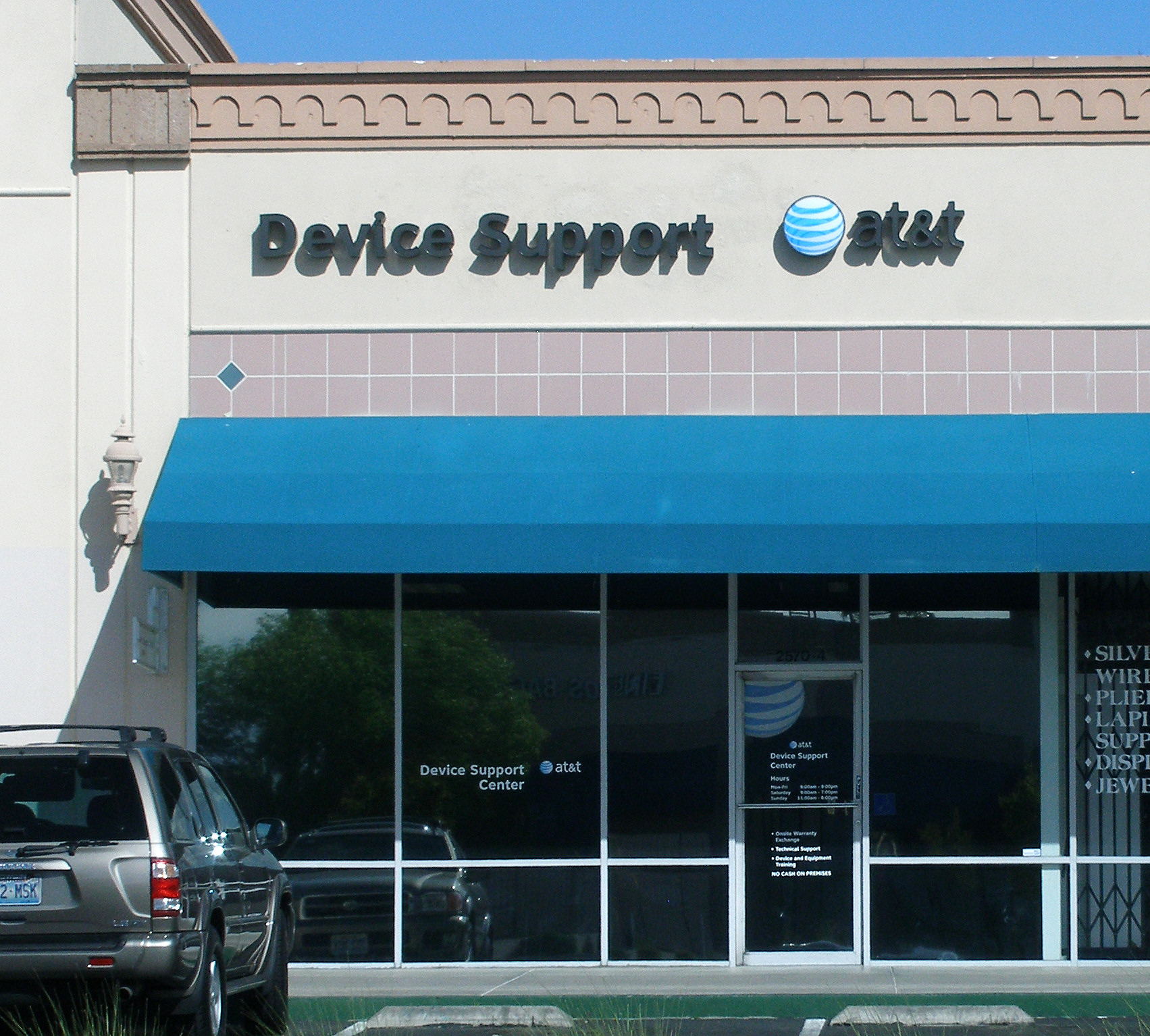 An AT&T Mobility Device Support Center in Las Vegas, Nevada. AT&T provides certain types of technical support for its mobile phones through these centers.